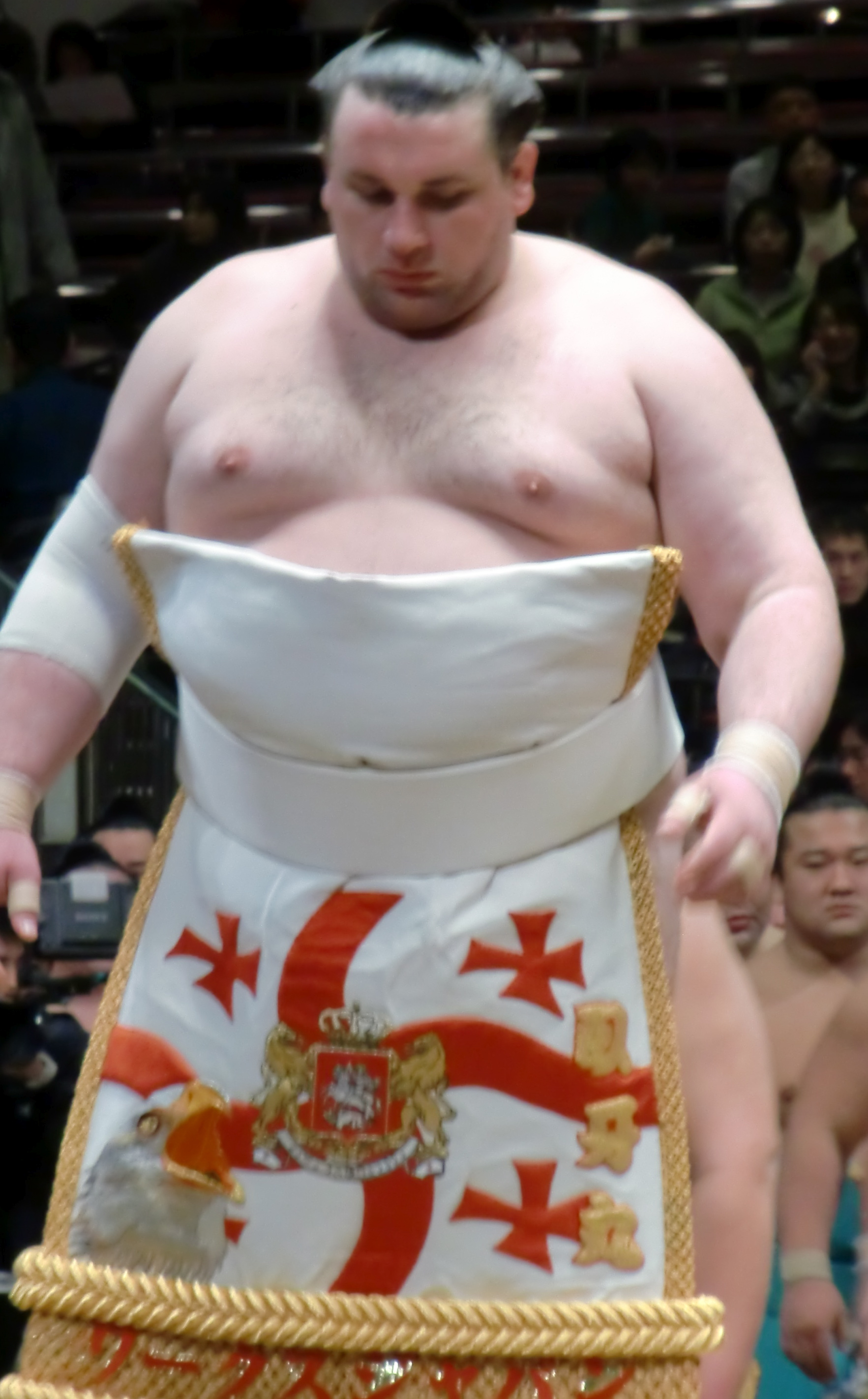 taken at Jan 2010 tournament